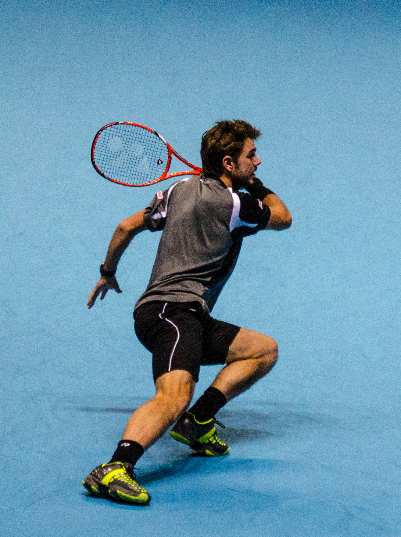 This is a photo of a tennis game at the ATP World Tour Finals.